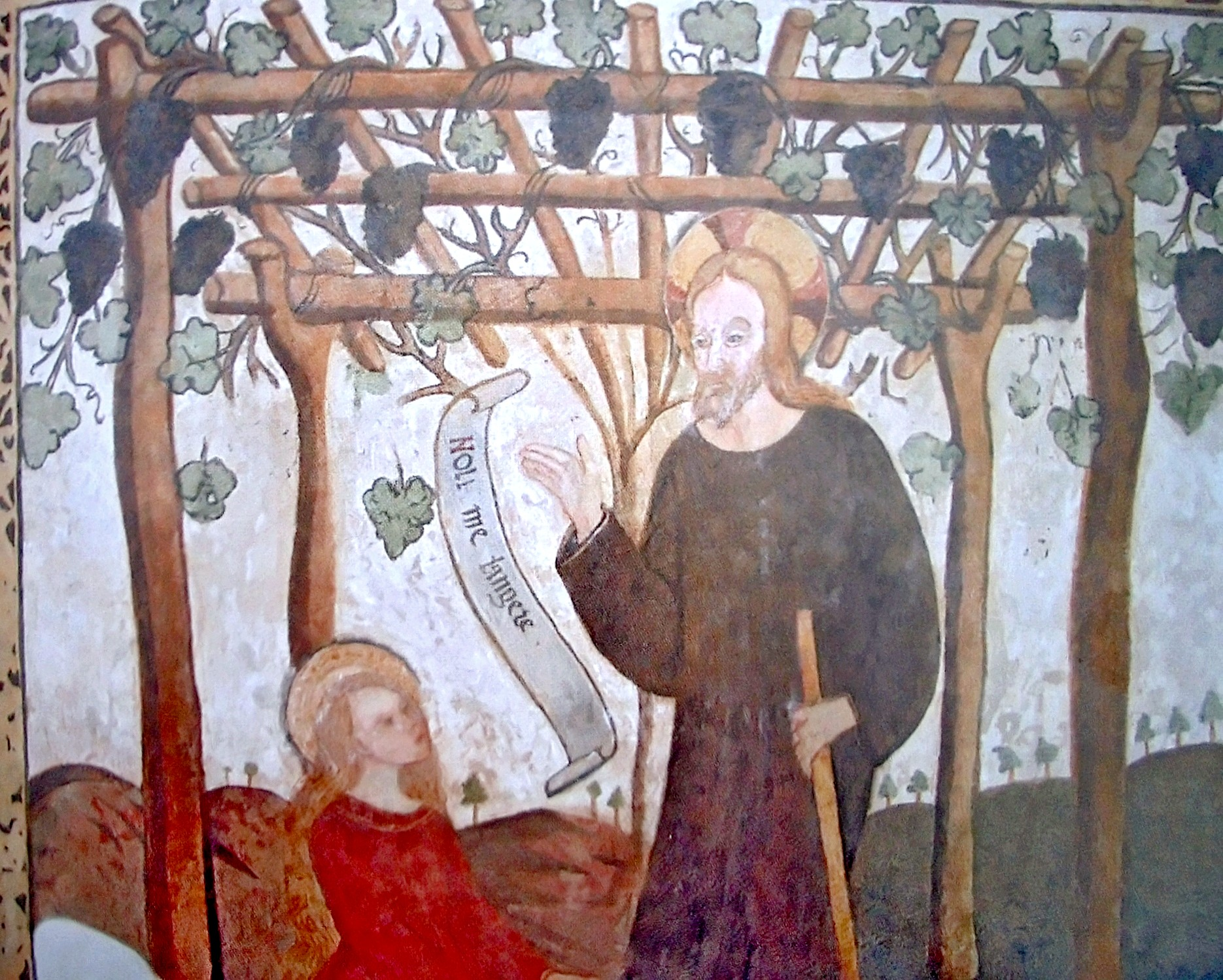 Angelo Baschenis, Noli me tangere, fresco, 1490, Pinzolo, San Vigilio church